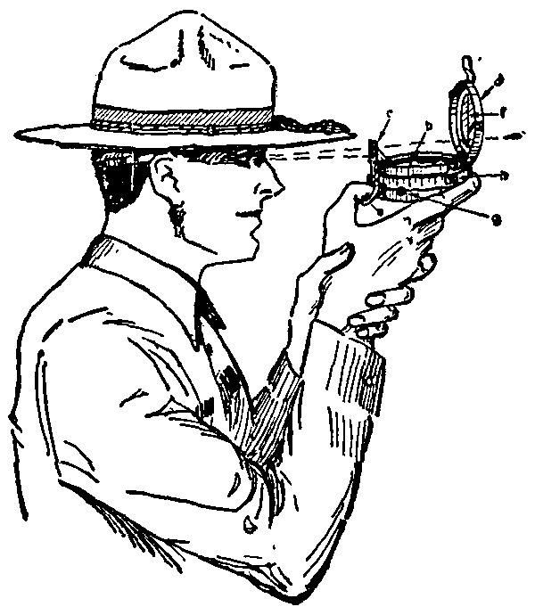 Prismatic compass, showing compass open and in position for measuring azimuth in daylight